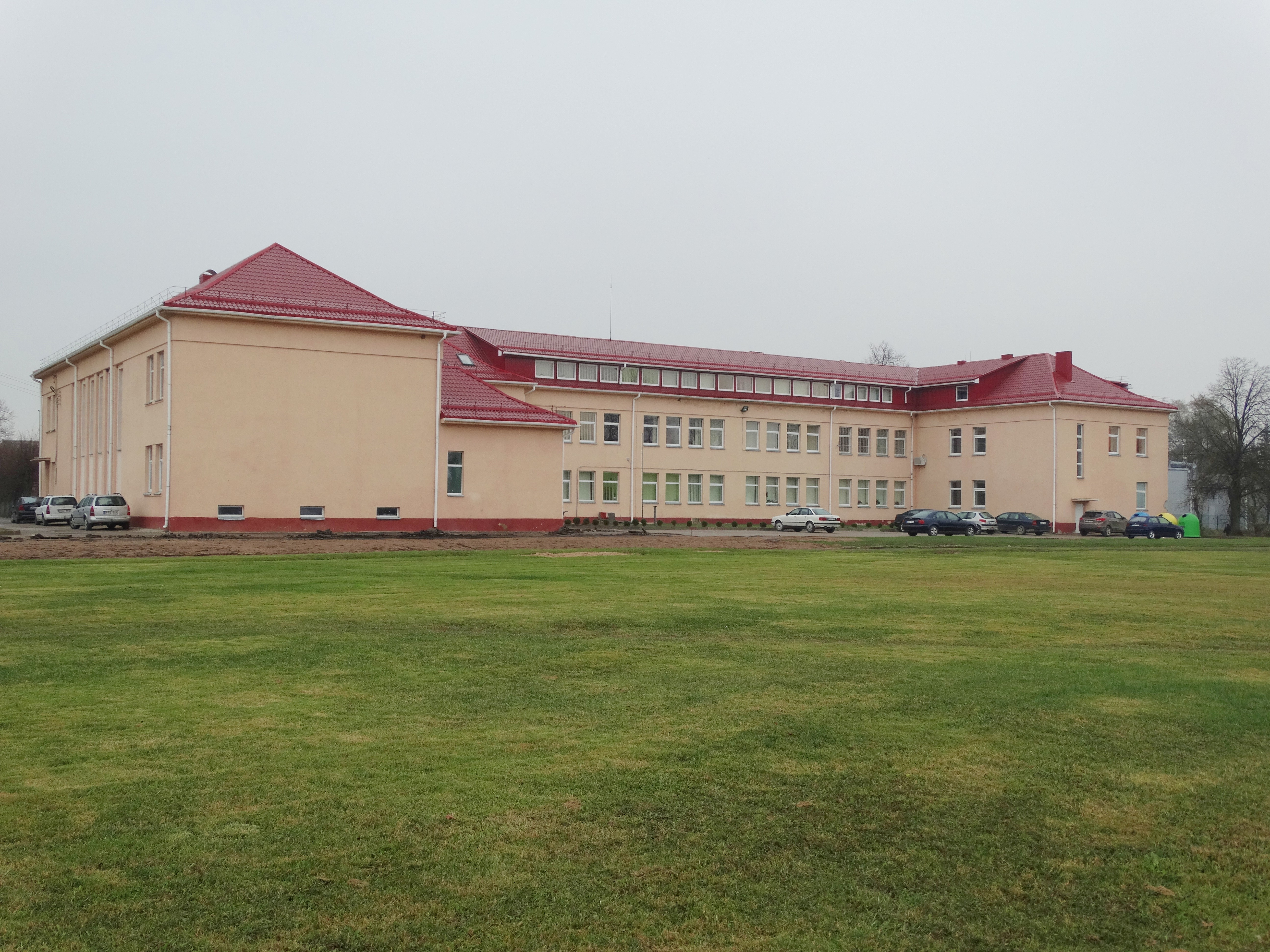 Basic school Svalia, Pasvalys, Lithuania